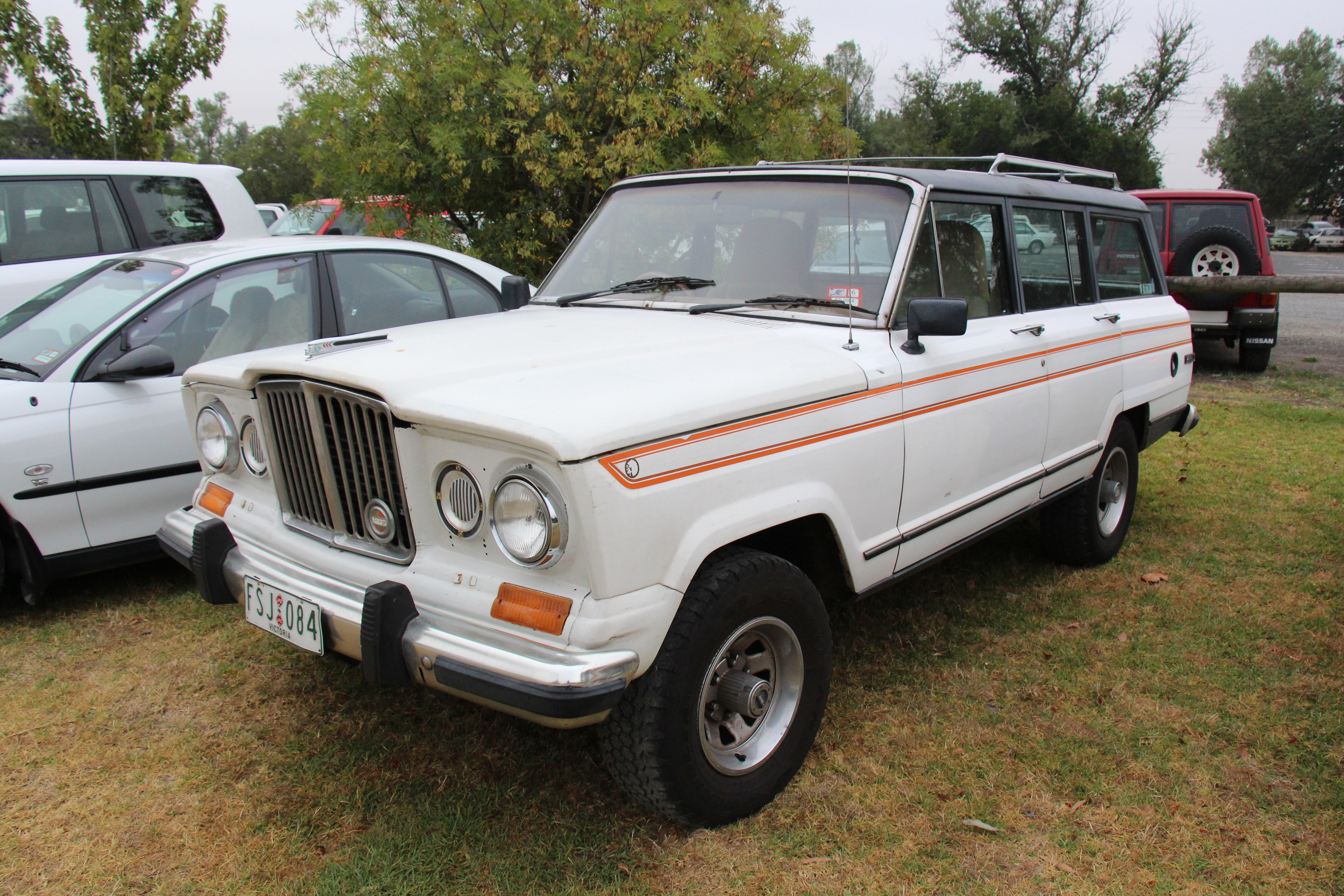 The Jeep Wagoneer was the first luxury 4x4, it was sold from 1963-91, introduced 7 years before Land Rovers luxury Range Rover was. The Wagoneer saw only minor mechanical changes during its 28 year life. It shared its styling with the Jeep Gladiator pickup truck. The Wagoneer featured free wheeeling hubs, power windows and tailgate, power disc brakes and air conditioning. From 1970 Jeep was owned by AMC, then in 1987 taken over by Chrysler, so during this period, they ran with AMC engines. Engine; 360 cu in V8